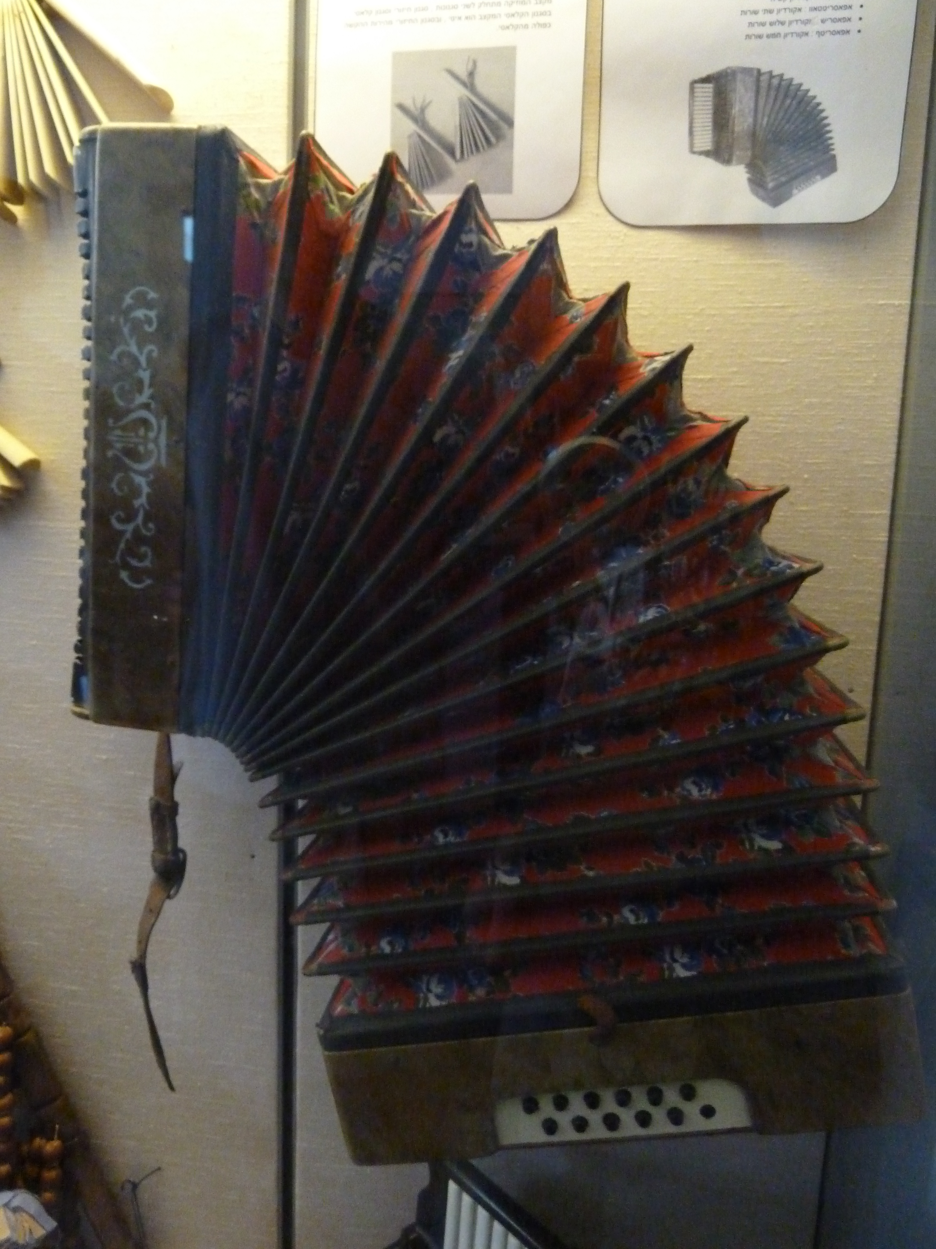 Exhibits at the Circassian Heritage Center in Kfar-Kama, Kfar Kama, the Lower Galilee, Israel This image was taken as part of the Elef Millim project trip to the Circassian town of Kfar Kama in the Lower Galilee, which was held on Friday, 22nd June 2012. To view all images uploaded as part of the Elef Millim Project